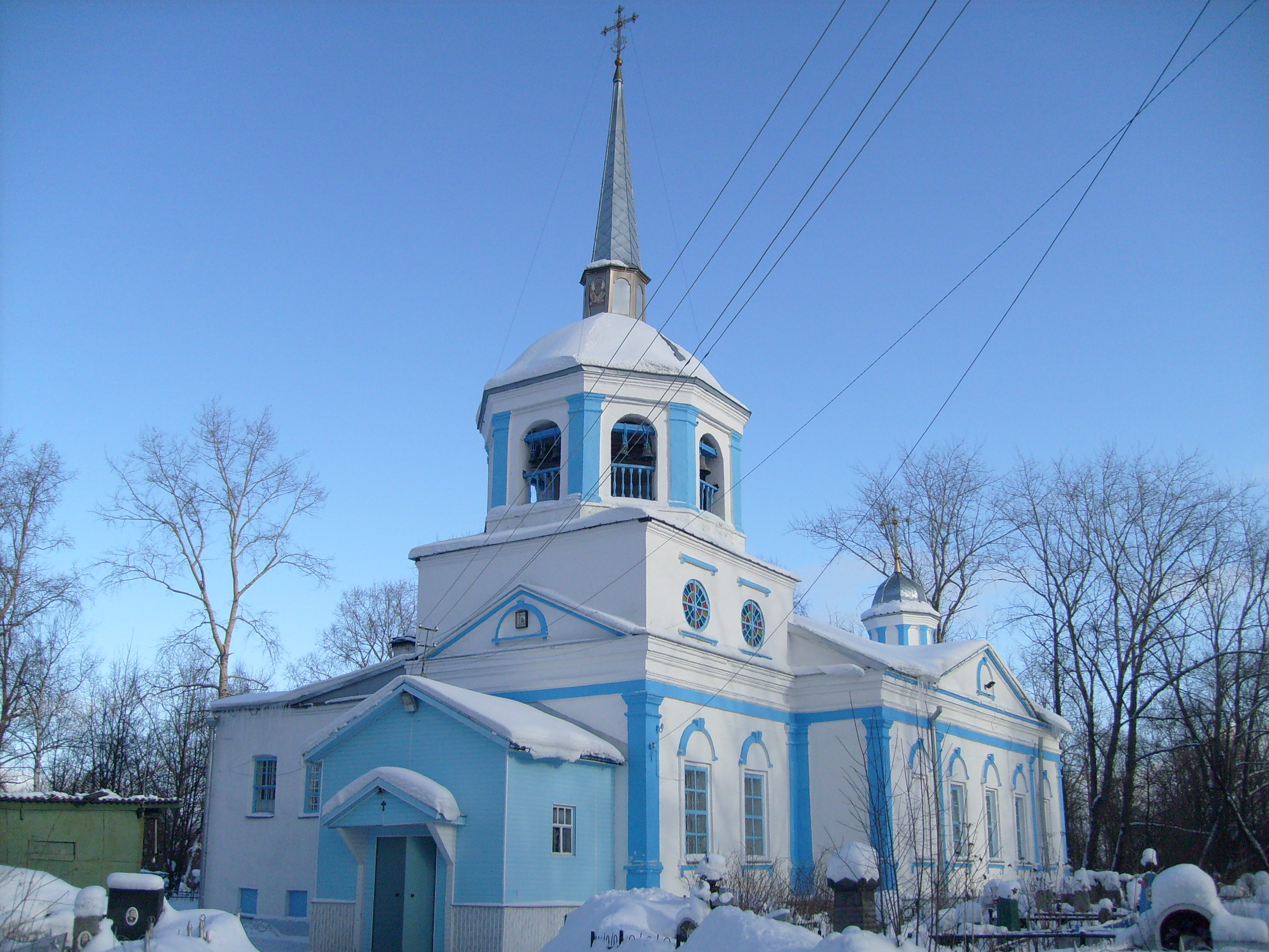 St Martin Church on Solombala Cemetery, Arkhangelsk, built in 1804–06.